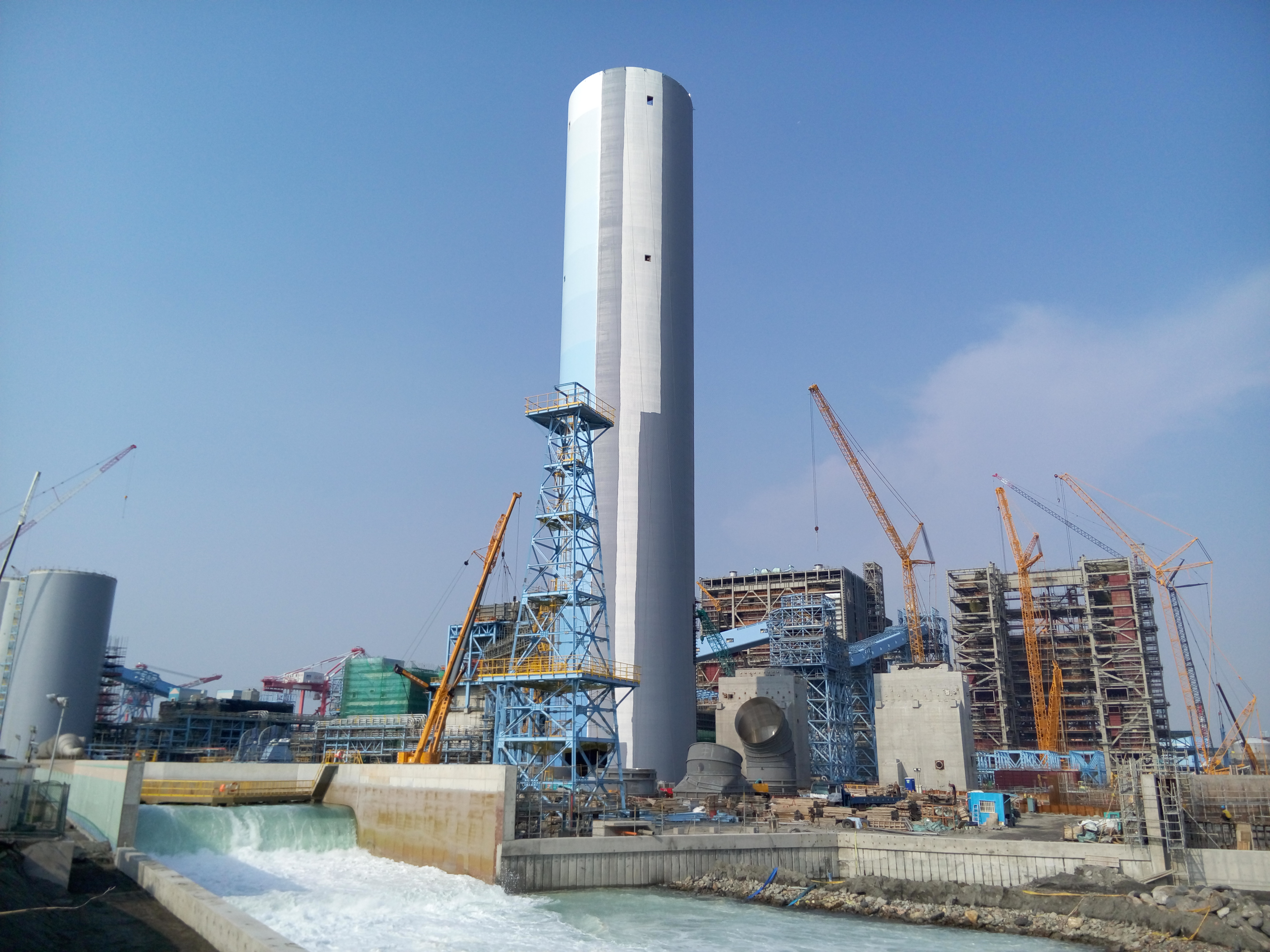 Da-Lin Power Plant new unit